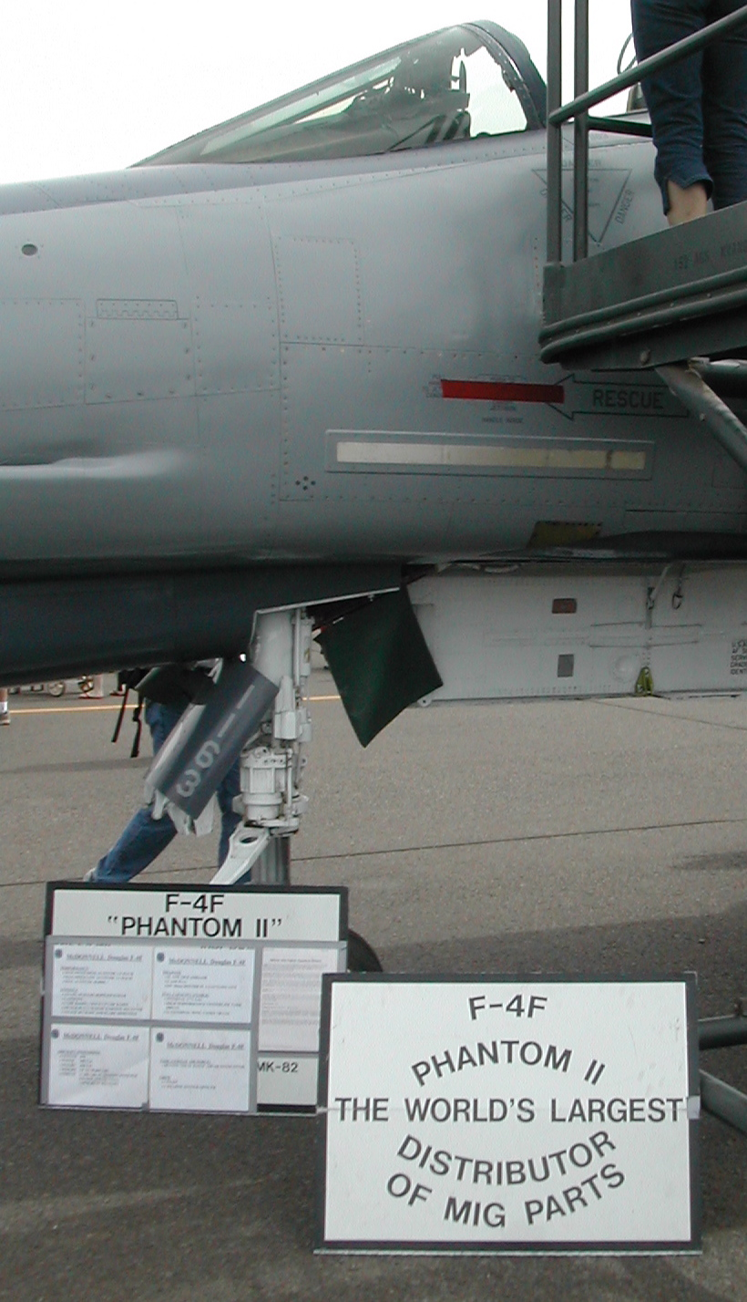 F-4 Phantom II, displayed with the nickname of "the world's leading distributor of MiG parts". Photograph by ericg, taken at the static display area of the 2004 Reno Air Races.